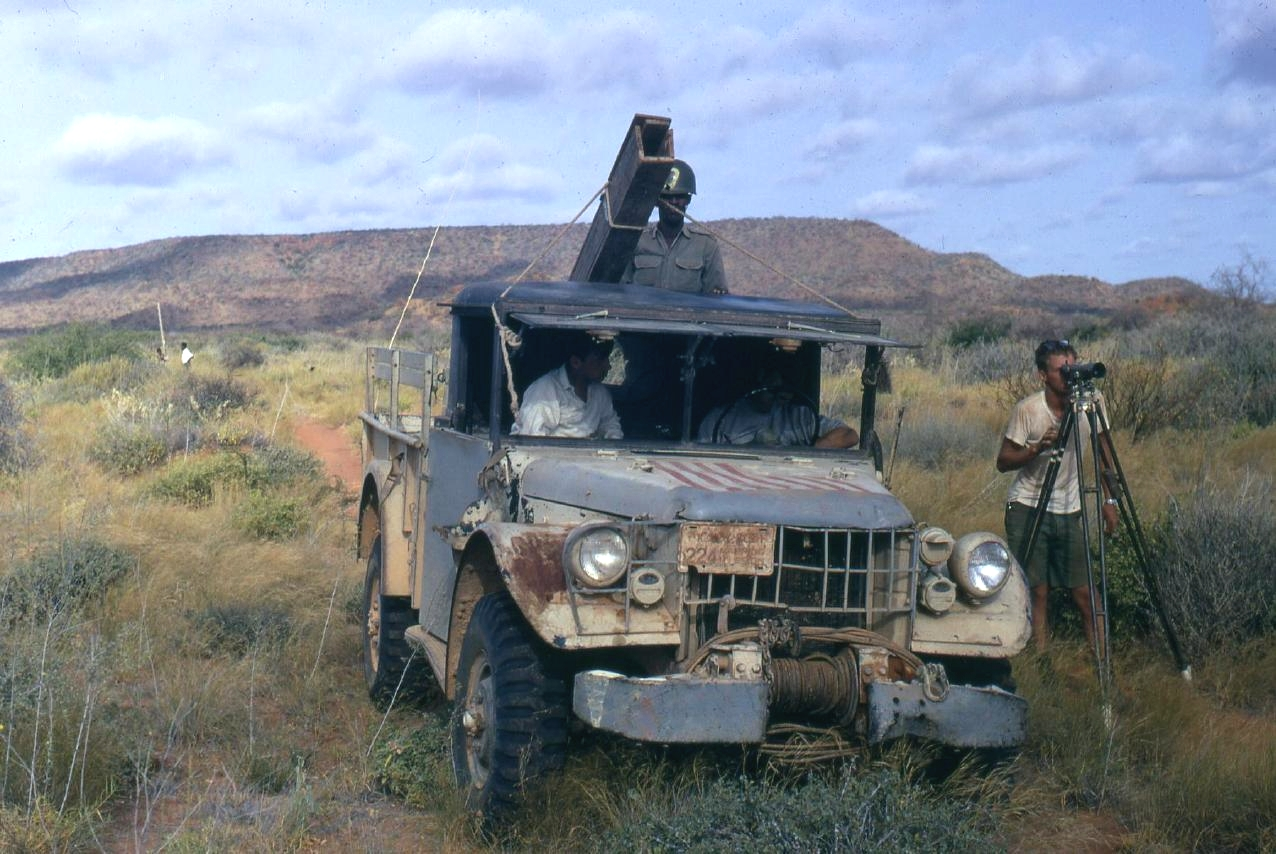 U.S. Army soldier running level line to establish vertical control for topographic mapping in Ethiopia.